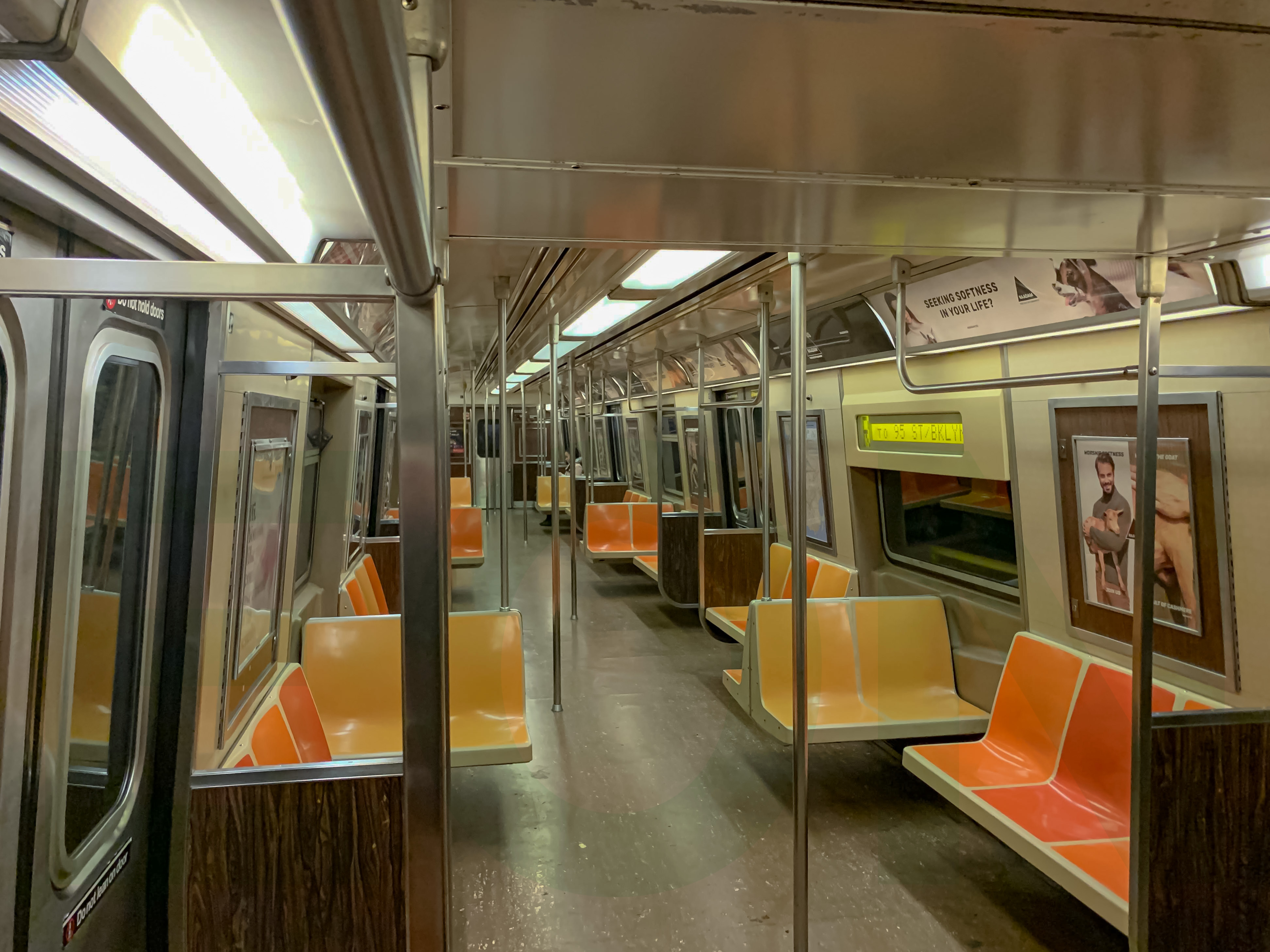 An almost empty interior of an R-46 R Train going towards Bay Ridge from Forest Hills.